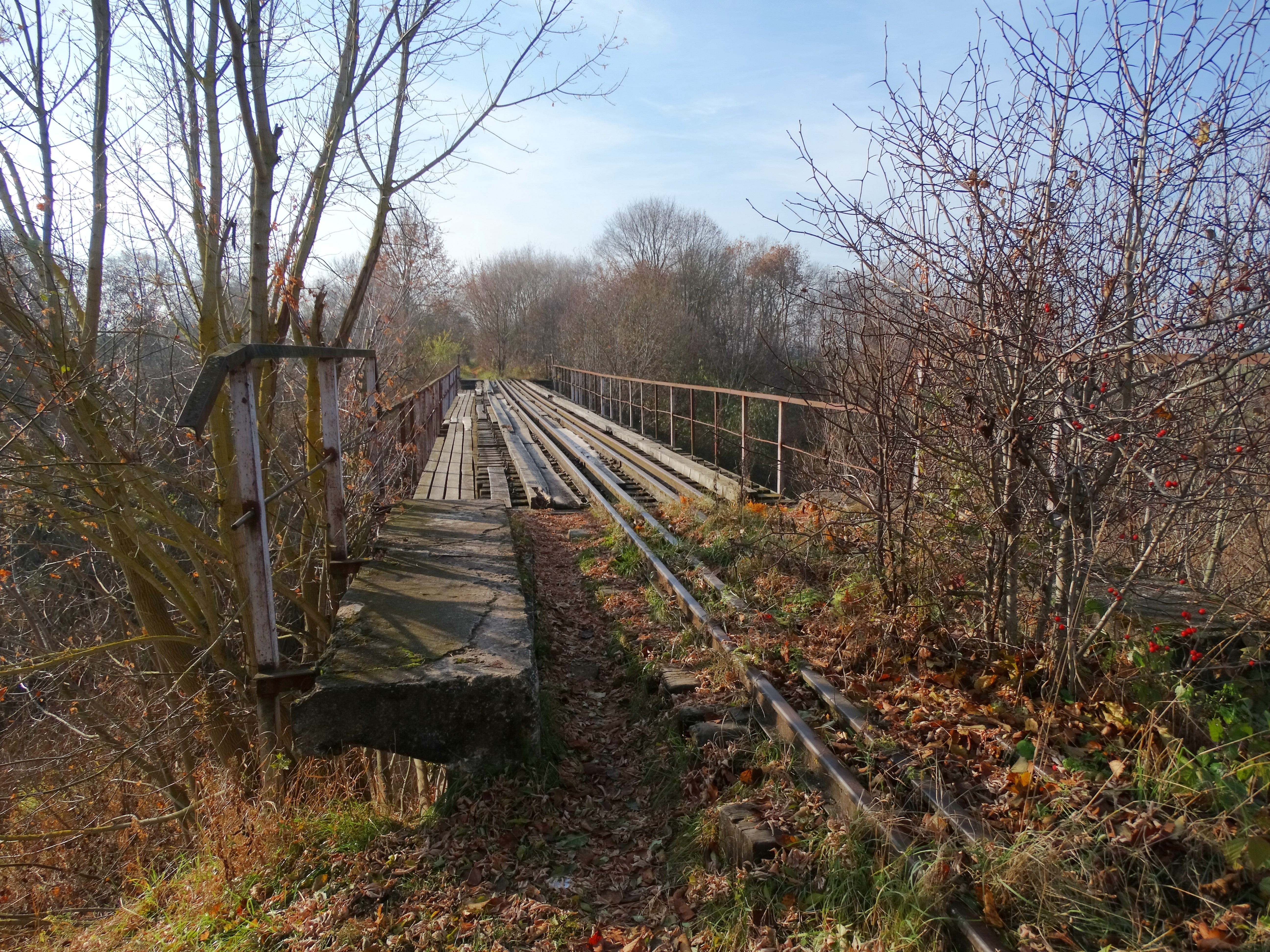 Narrow gauge railway bridge, Papyvesiai, Pasvalys District, Lithuania